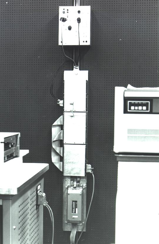 Cambridge Ring, Summer 1979